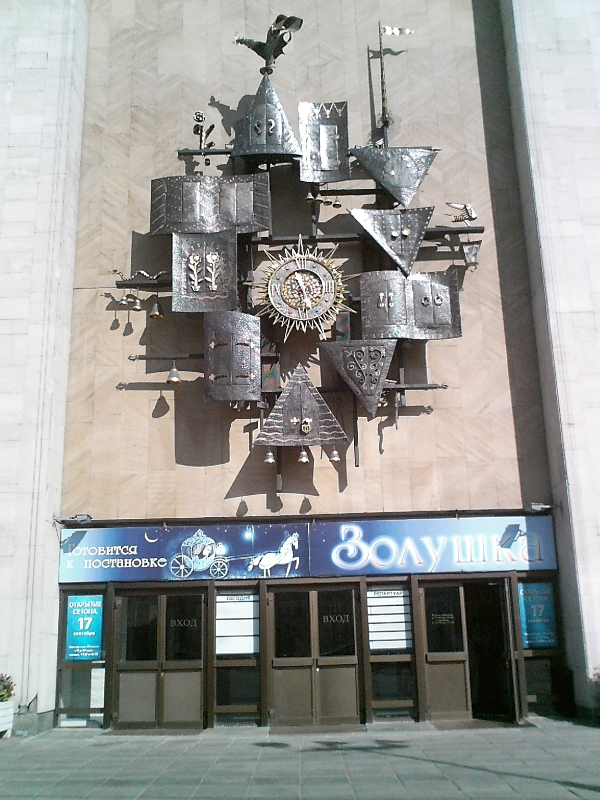 Obraztsov puppet teater in Moscow